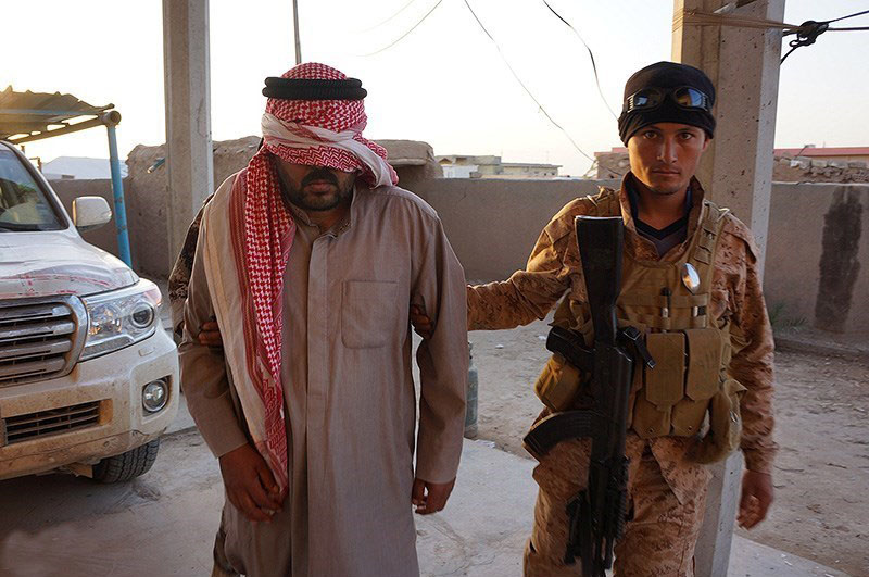 Iraqi Army and Hashed al-Shaabi (Popular Mobilization Forces of Iraq) fighting against the Islamic State in Saladin Governorate.